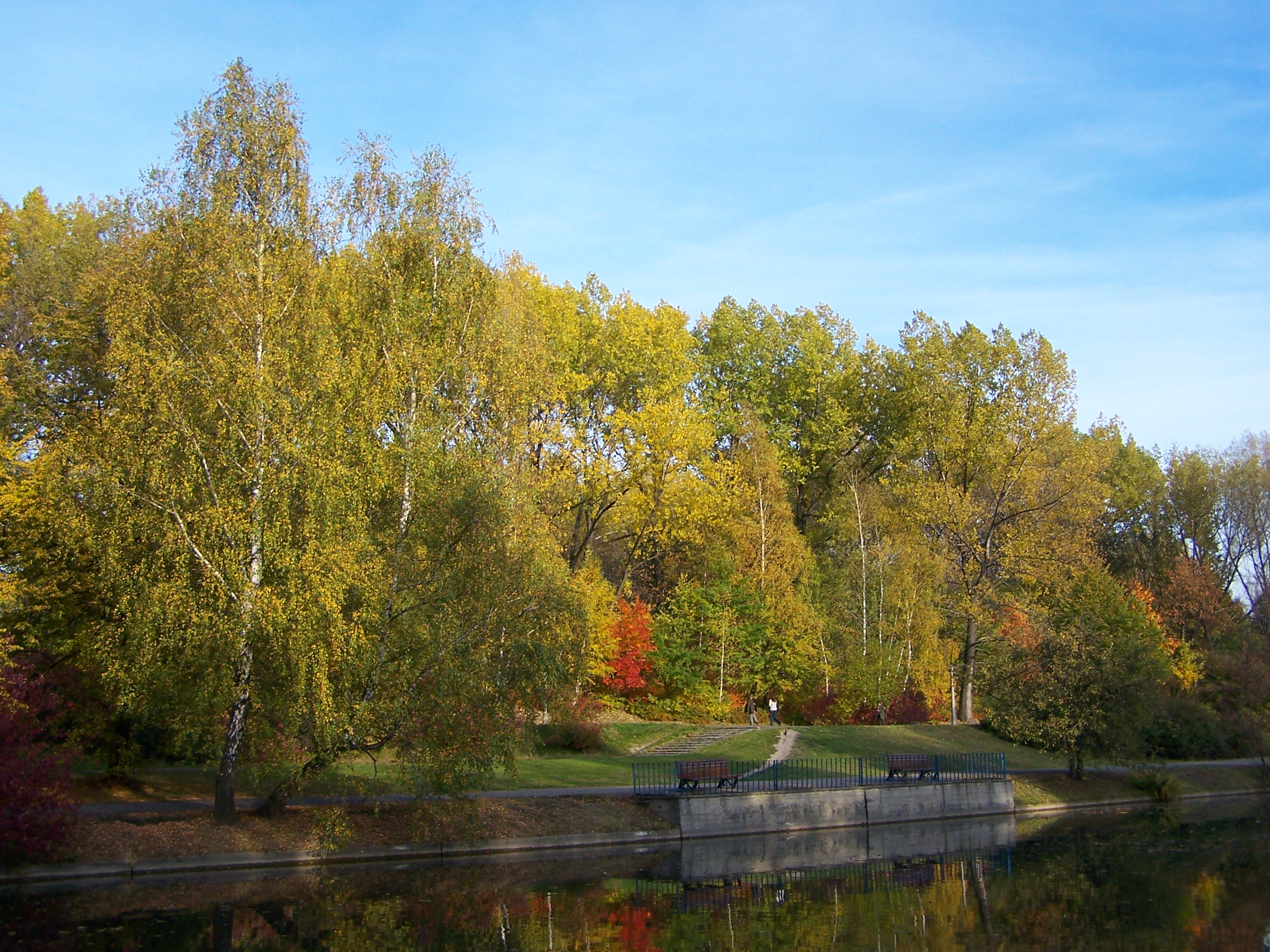 Silesian Central Park.